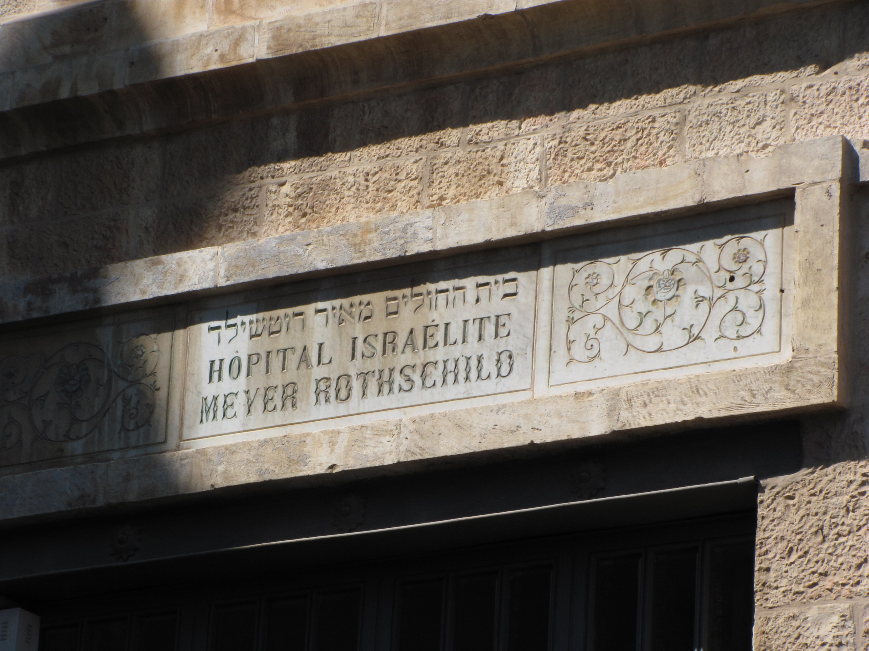 Original name plate over a door lintel of the Meyer Rothschild Hospital, 37 Street of the Prophets, Jerusalem. Under the Hebrew, the French name reads "Hôpital israélite Meyer Rothschild".